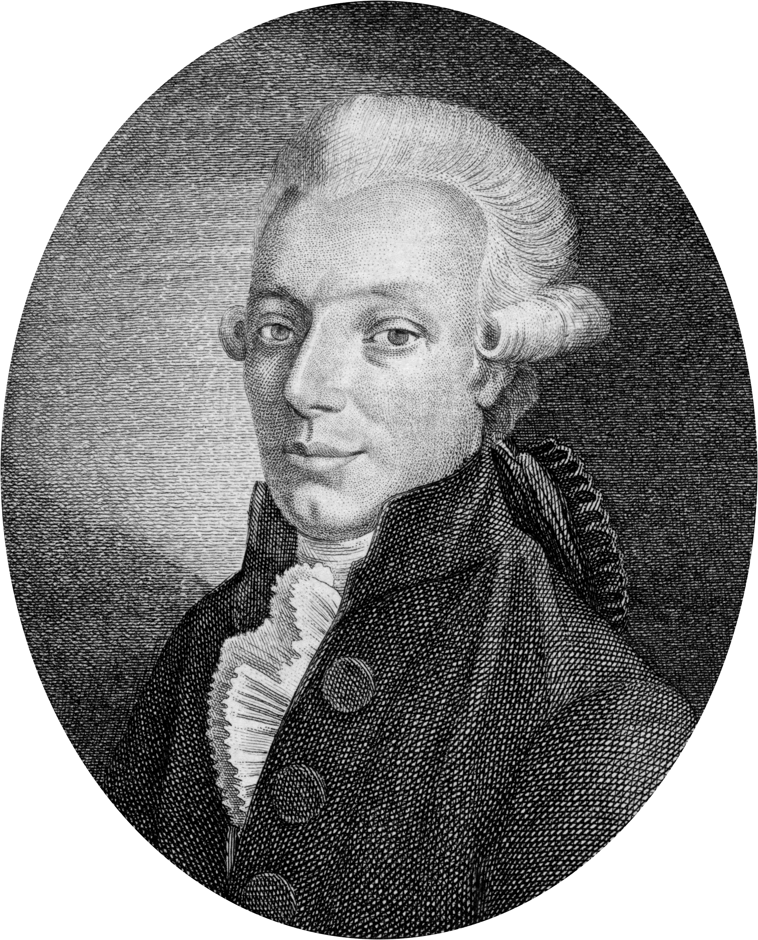 Pieter Paulus (1753-1796), Dutch attorney, judge-advocate and politician. Ideologist of the Patriot movement in the Netherlands. Founder of the Dutch democracy and national unity. Chairman of the Provisional Representatives of the People of Holland. Chairman of the First National Assembly.